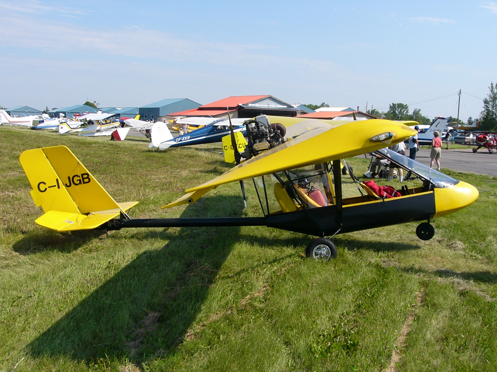 A Back Forty Tundra ultralight at Arnprior, Ontario, Canada, airport.